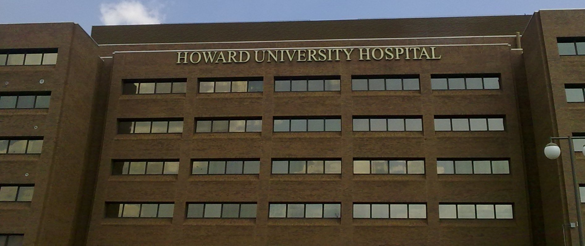 Howard University Hospital